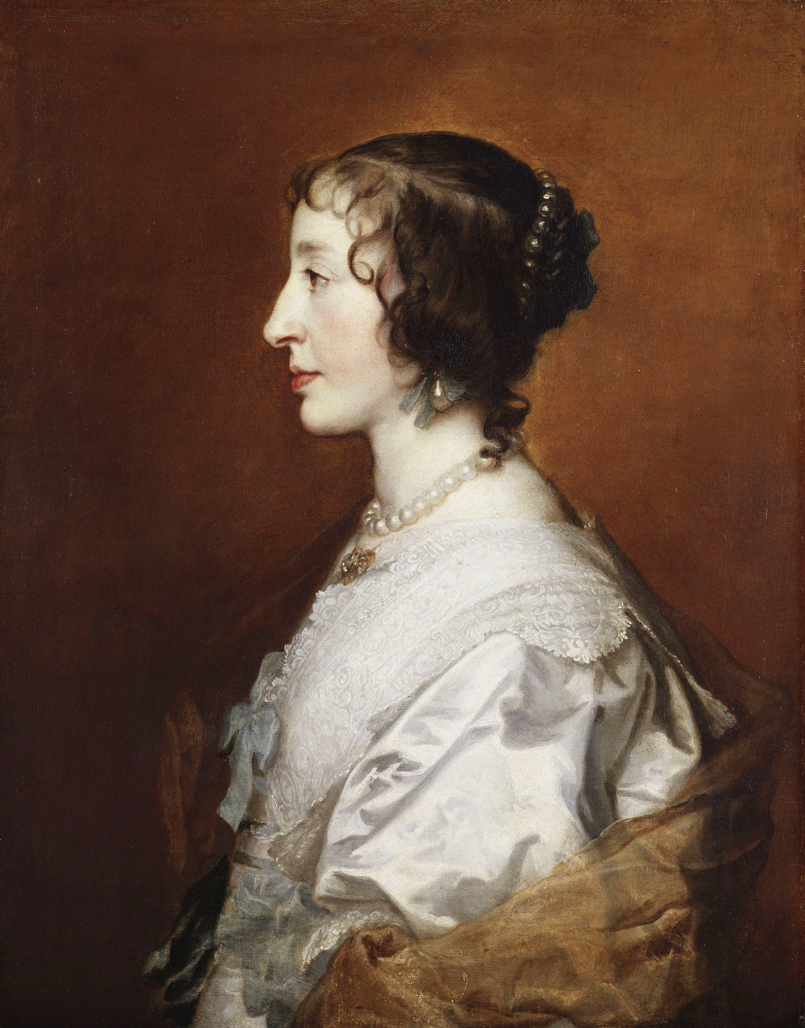 Painting in profile of Henrietta Maria, Queen of England.